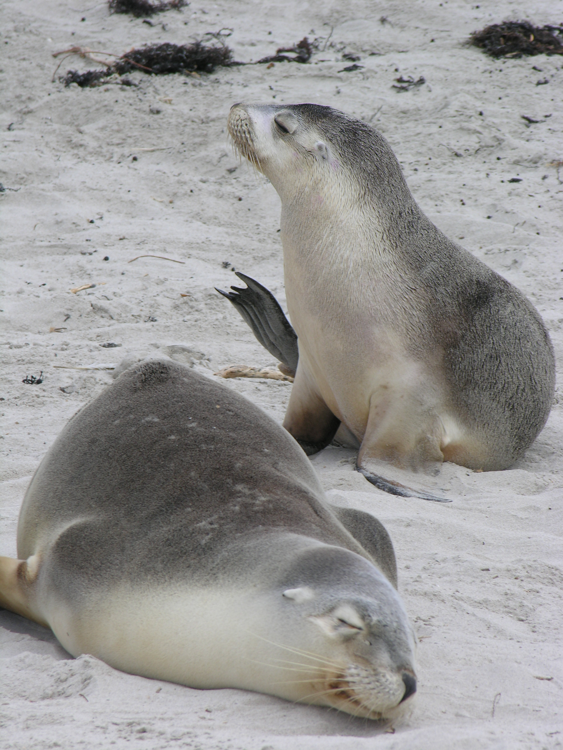 Berni Riccardo Kangaroo Island